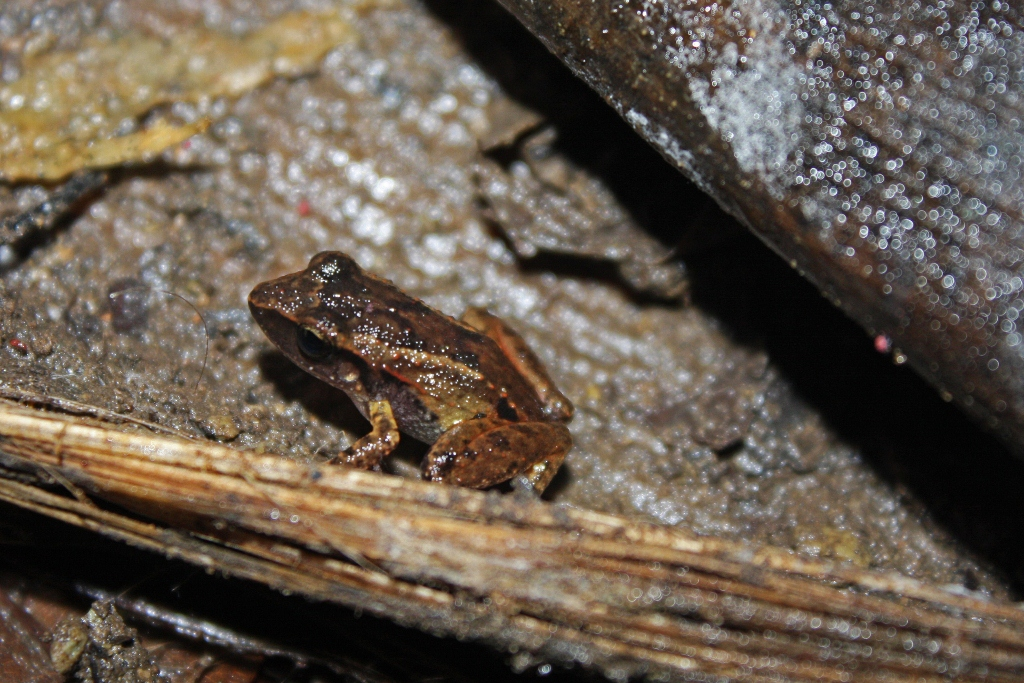 Found within the leaf litter near a cocoa plantation during a climb of El Yunque, Guantanamo.